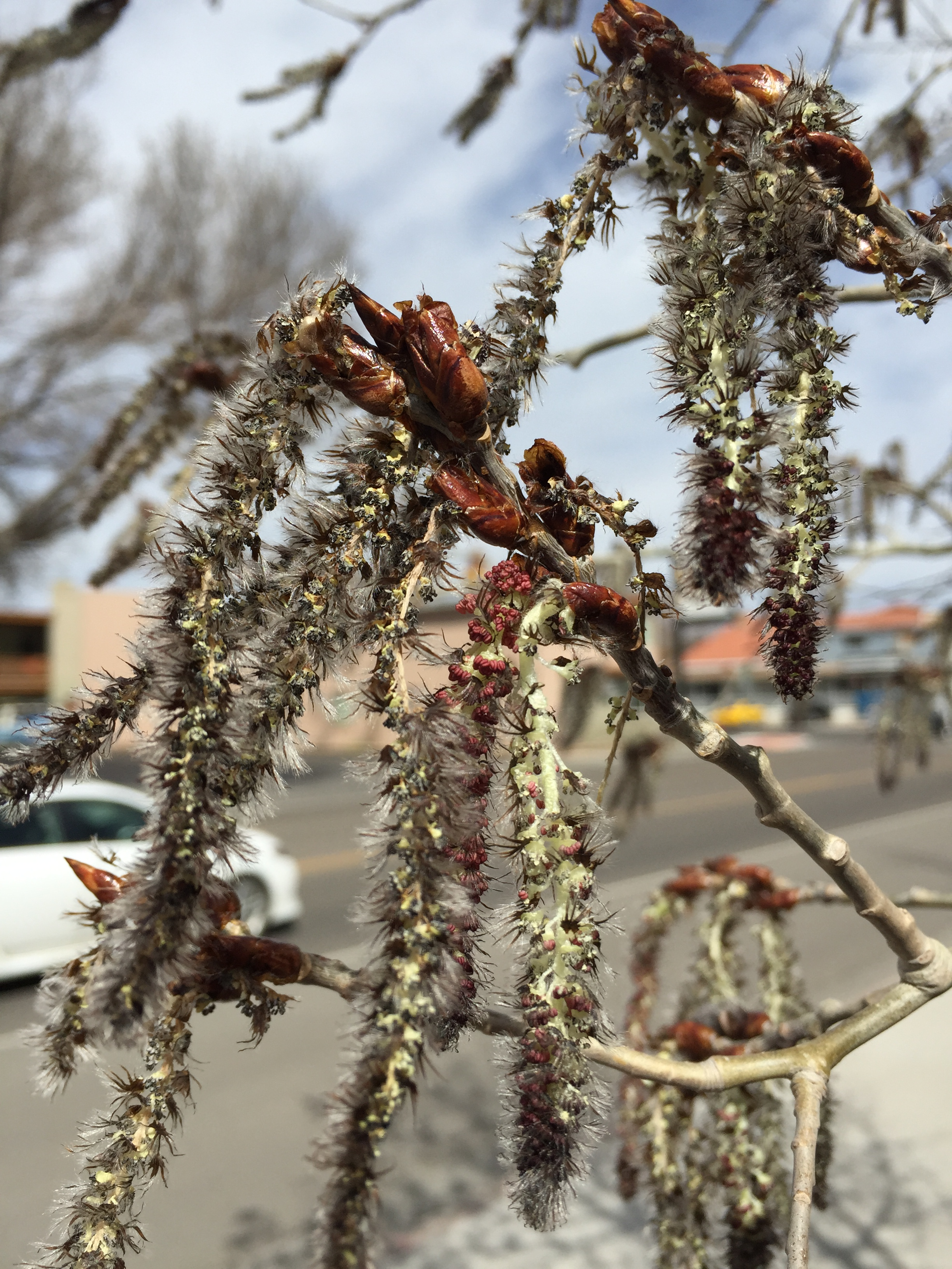 Aspen catkins on Idaho Street (Interstate 80 Business) in Elko, Nevada